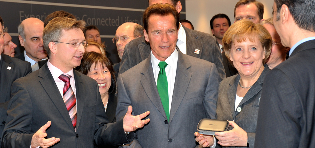 California Governor Arnold Schwarzenegger and German Chancellor Angela Merkel visit with NETGEAR executives David Soares (Sr. VP of Worldwide Sales & Support) and Thomas Jell (Managing Director, Central Europe), at CeBIT 2009, the world's largest trade fair for digital business solutions and information and communications technology.